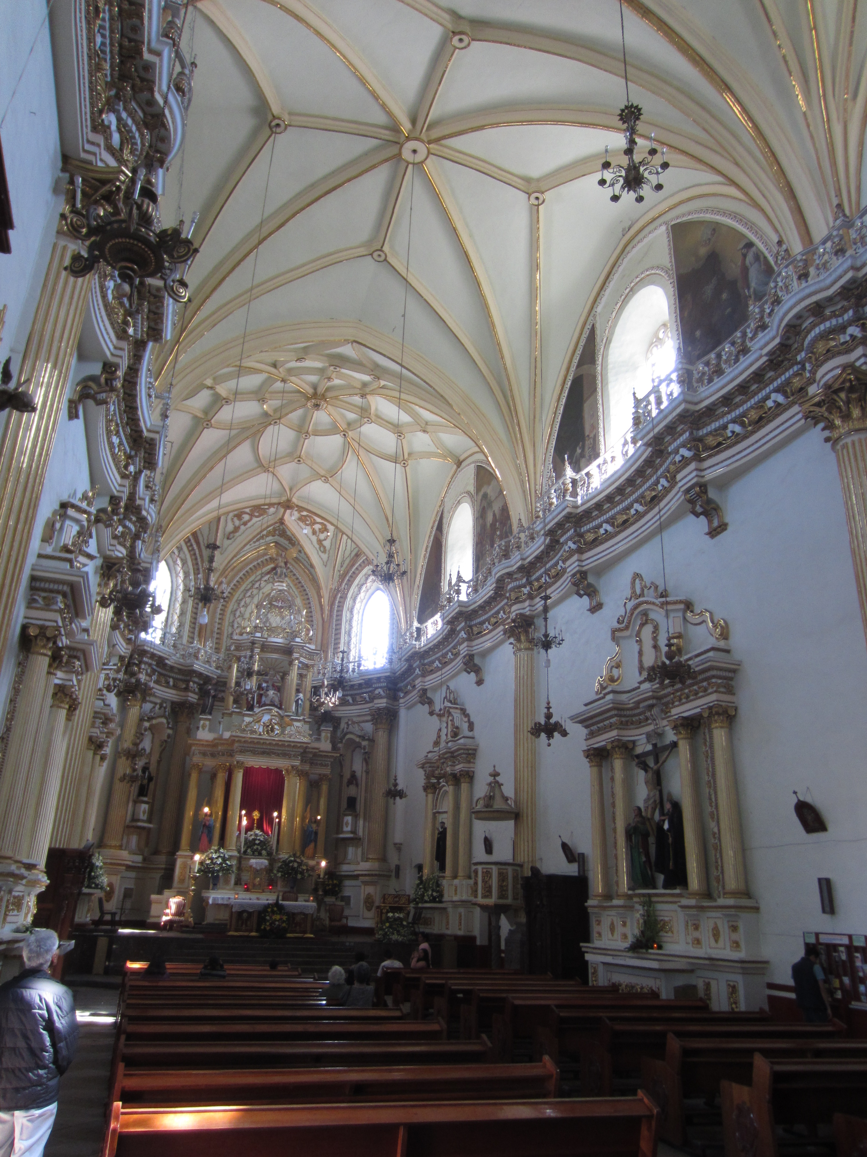 Cholula, Puebla, Mexico (2018)